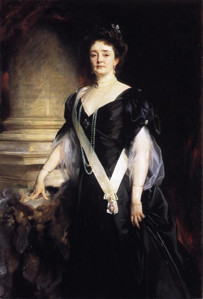 Louise, Duchess of Connaught John Singer Sargent -- American painter 1908 The Royal Collection Oil on canvas 160 x 108 cm ((62.99 x 42.52 in.) Jpg: .the-athenaeum